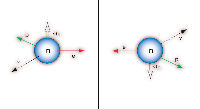 Two types of neutron decay produce a proton, an electron and an electron antineutrino but eject them in different configurations, The experiments at NIST detected no imbalance, but the improved sensitivity could help place limits on competing theories about the matter-antimatter imbalance in the universe.